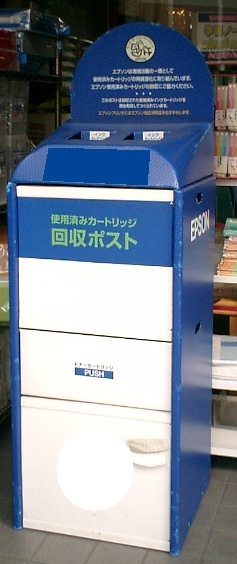 Ink Recycle Box at Tokuan Higashi-Osaka